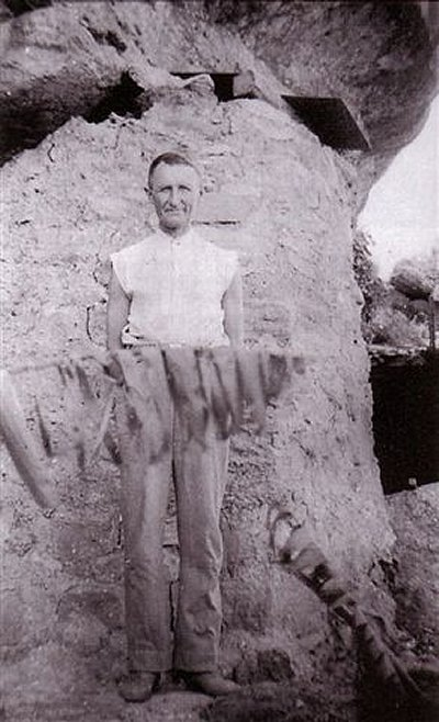 Valerio Ricetti outside a part of his Hermit's Cave complex